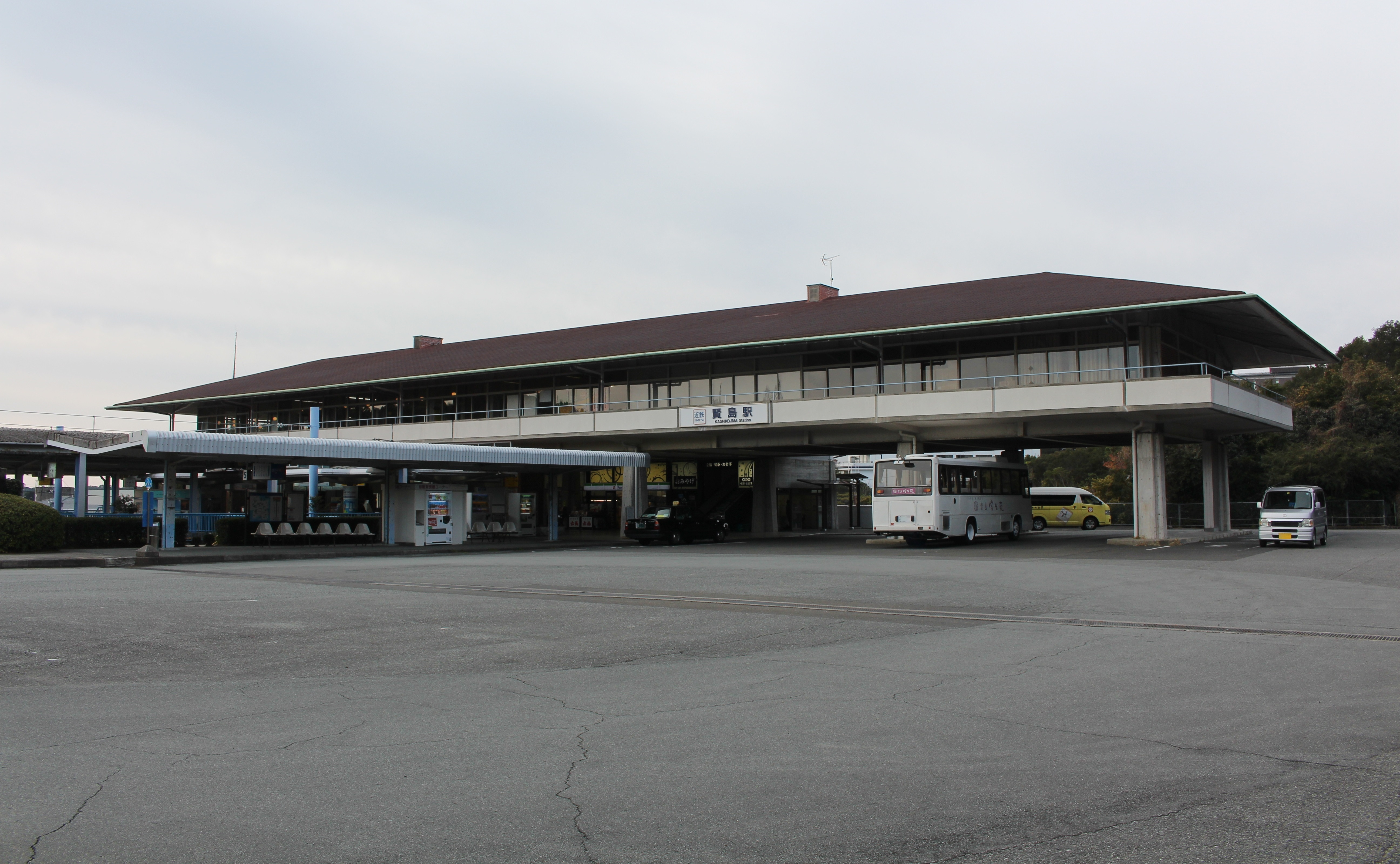 Kashikojima Station, in Shima, Mie prefecture, Japan.